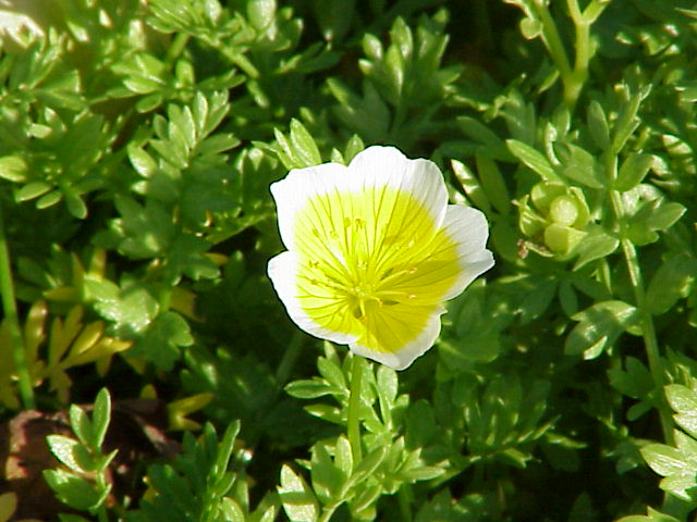 Species: Limnanthes douglasii Family: Limnanthaceae Image No. 2